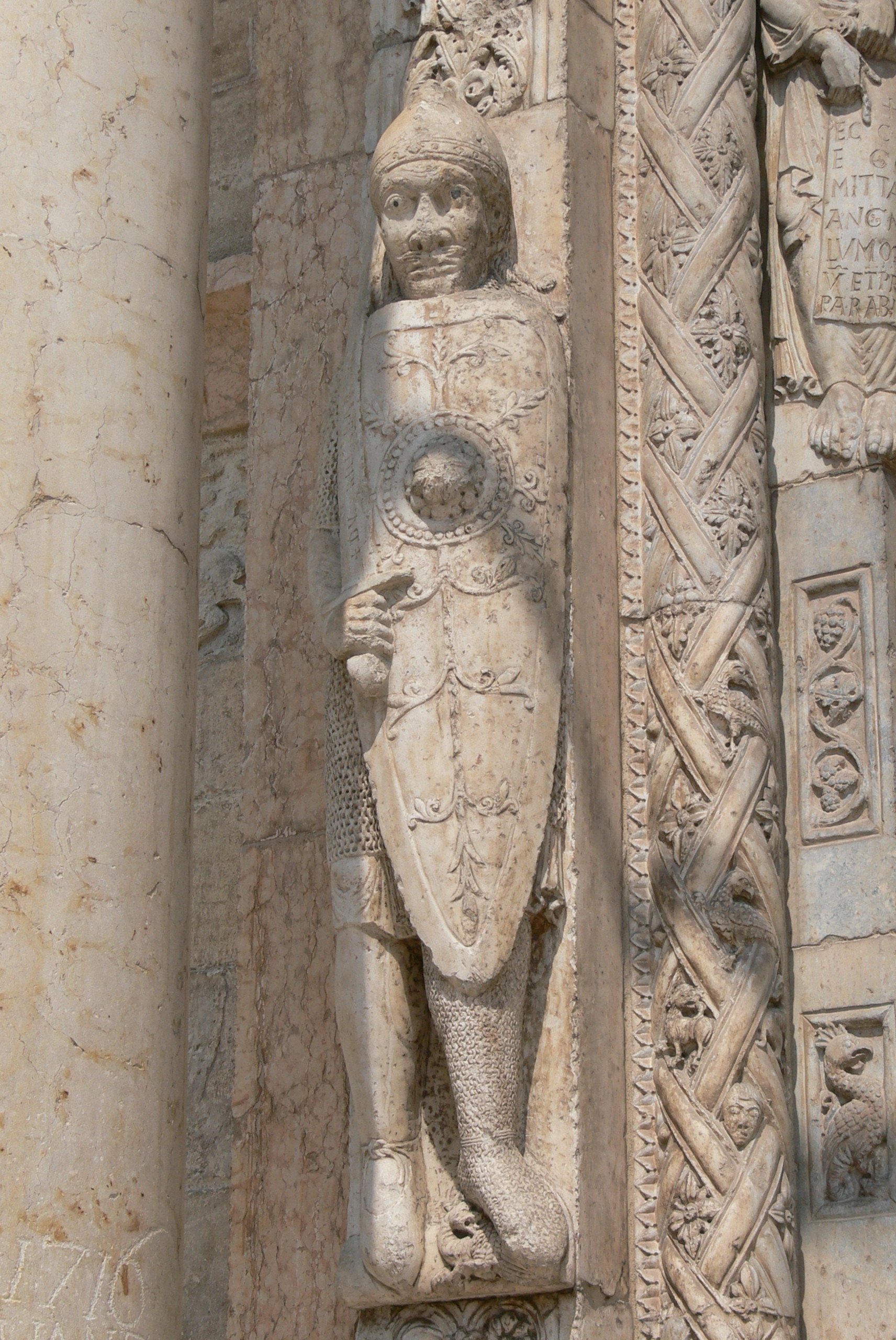 Verona ( Italy ). Cathedral: Romanesque relief - Roland as guardian - at the main portal ( 1139 ). Sword inscribed "DV RIN DAR DA"